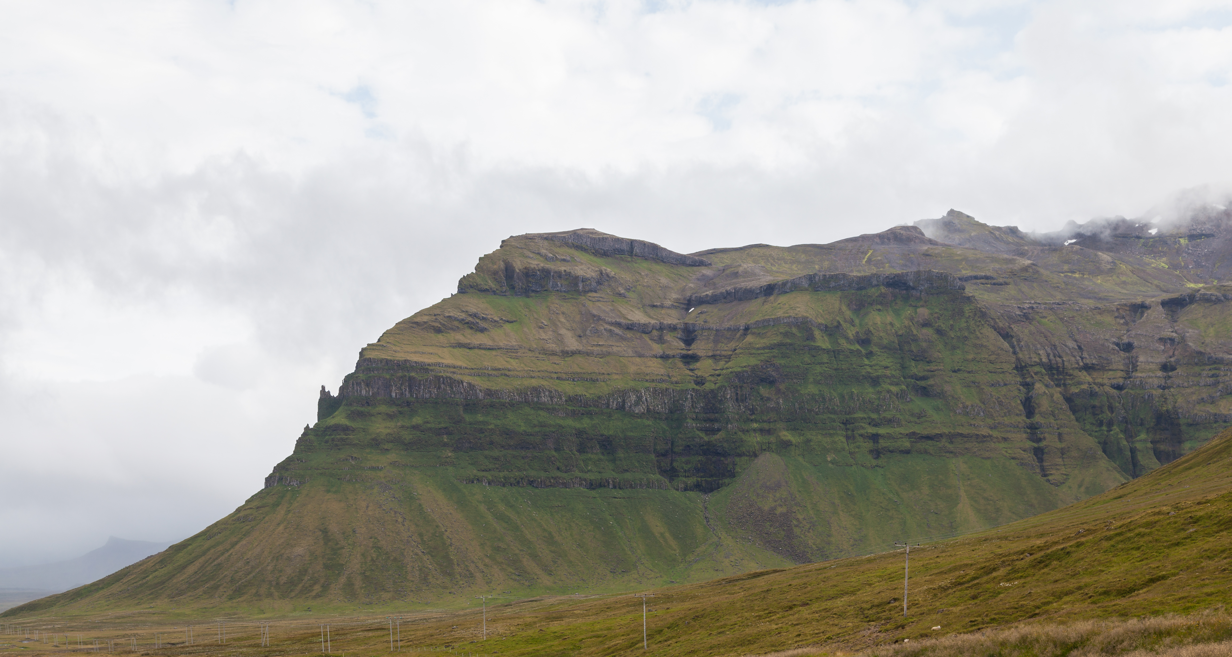 Búlandshöfði, Vesturland, Iceland